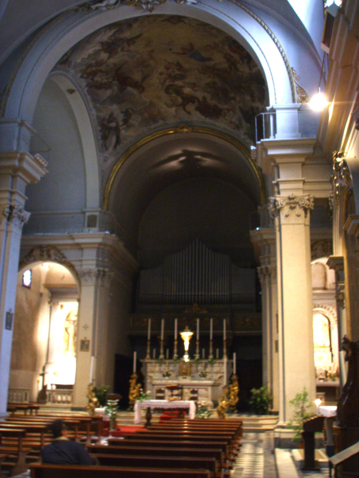 San Michele Visdomini church, inside view, Florence, Italy